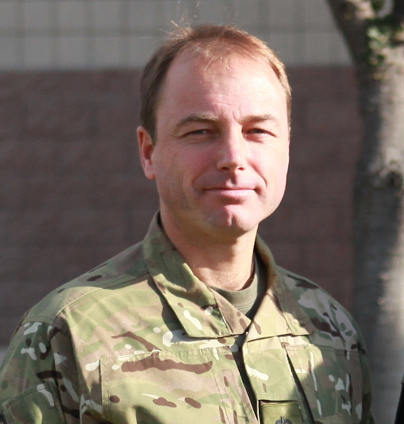 The commanding general of I Marine Expeditionary Force (Forward), Maj. Gen. Charles M. Gurganus (right) and the I MEF (Fwd) deputy commanding general, Royal Artillery Brig. Stuart Skeates (left) pose with the commanding officer of the 6th Zone Afghan Border Police, Col. Sultan Mahmood, at Camp Pendleton, Nov. 30. A delegation of five senior ranking Afghan military and police leaders came to southern California to see how their U.S. counterparts train and work. The visit is also a way to build relationships and trust to lay groundwork for further progress during I MEF (Fwd)'s upcoming deployment.